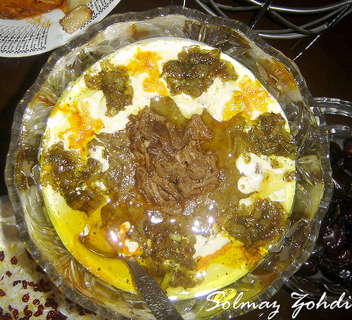 Kashk O Bademjan - grilled eggplants mixed with kashk